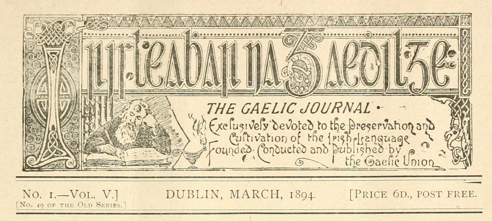 Part of front cover of issue 49 (Volume 5, number 1) of Gaelic Journal